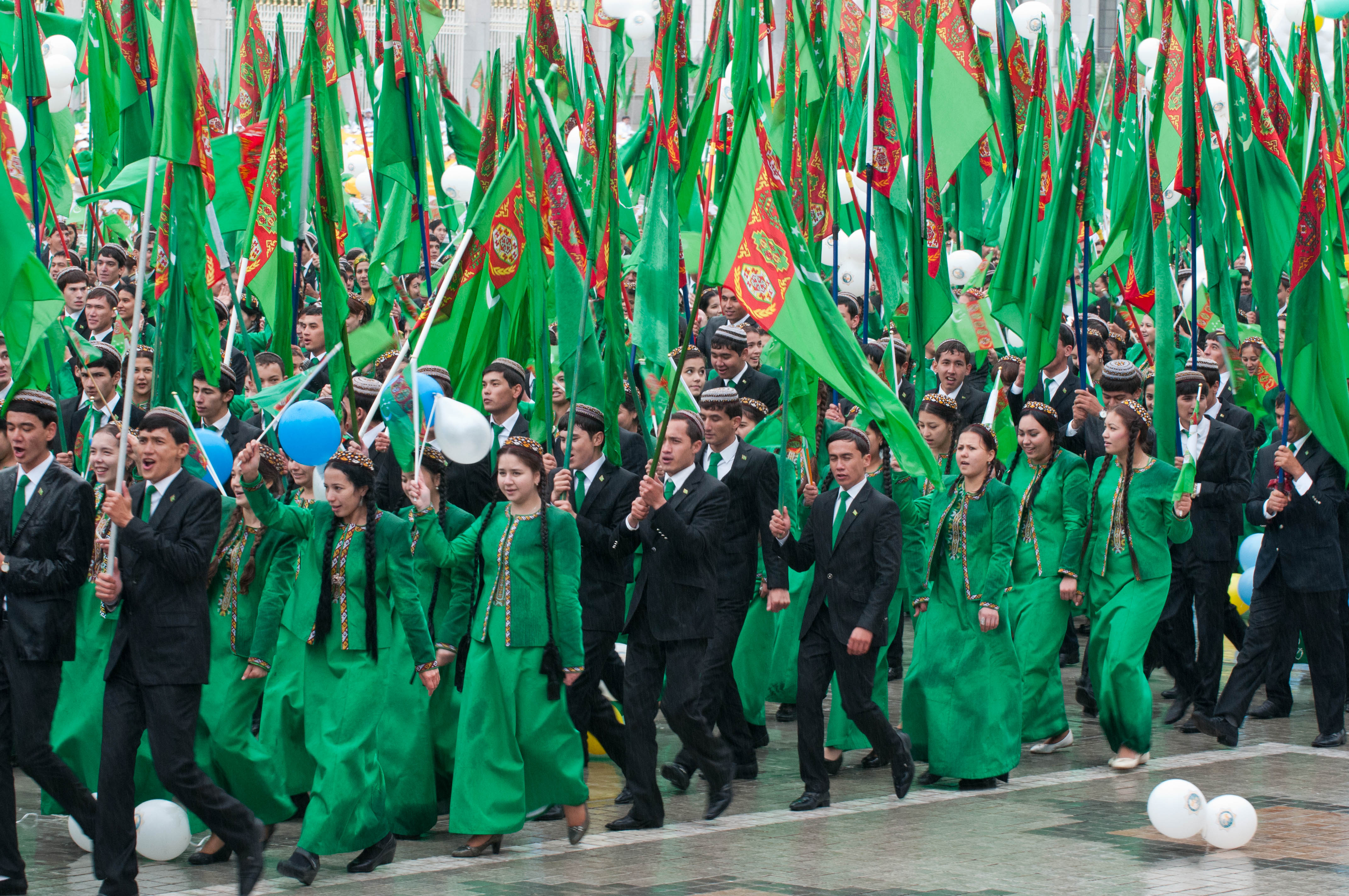 Celebrating the 20th year of independence in Turkmenistan